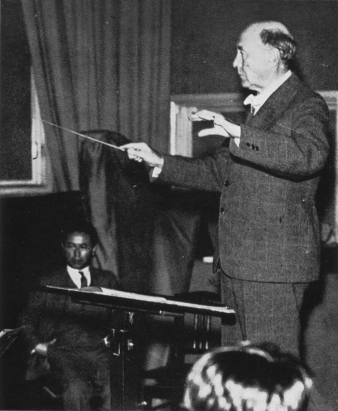 Felix Weingartner contucting from New Symphony Orchestra, Tokyo(1937).